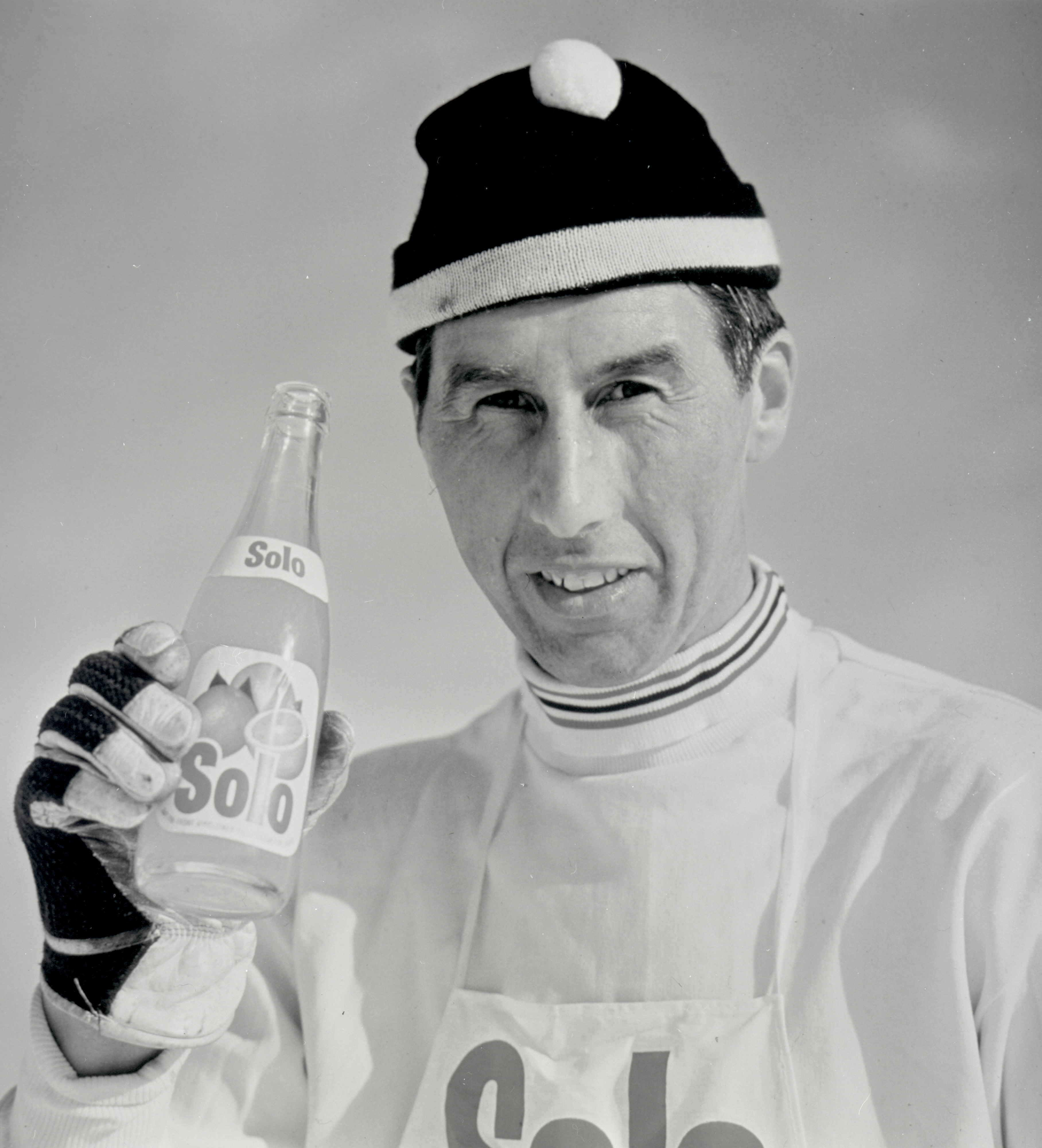 Commercial for the "Solo" soda drink. Cross-country skier, Norwegian champion and Olympic champion Harald Grønning advertising soda.